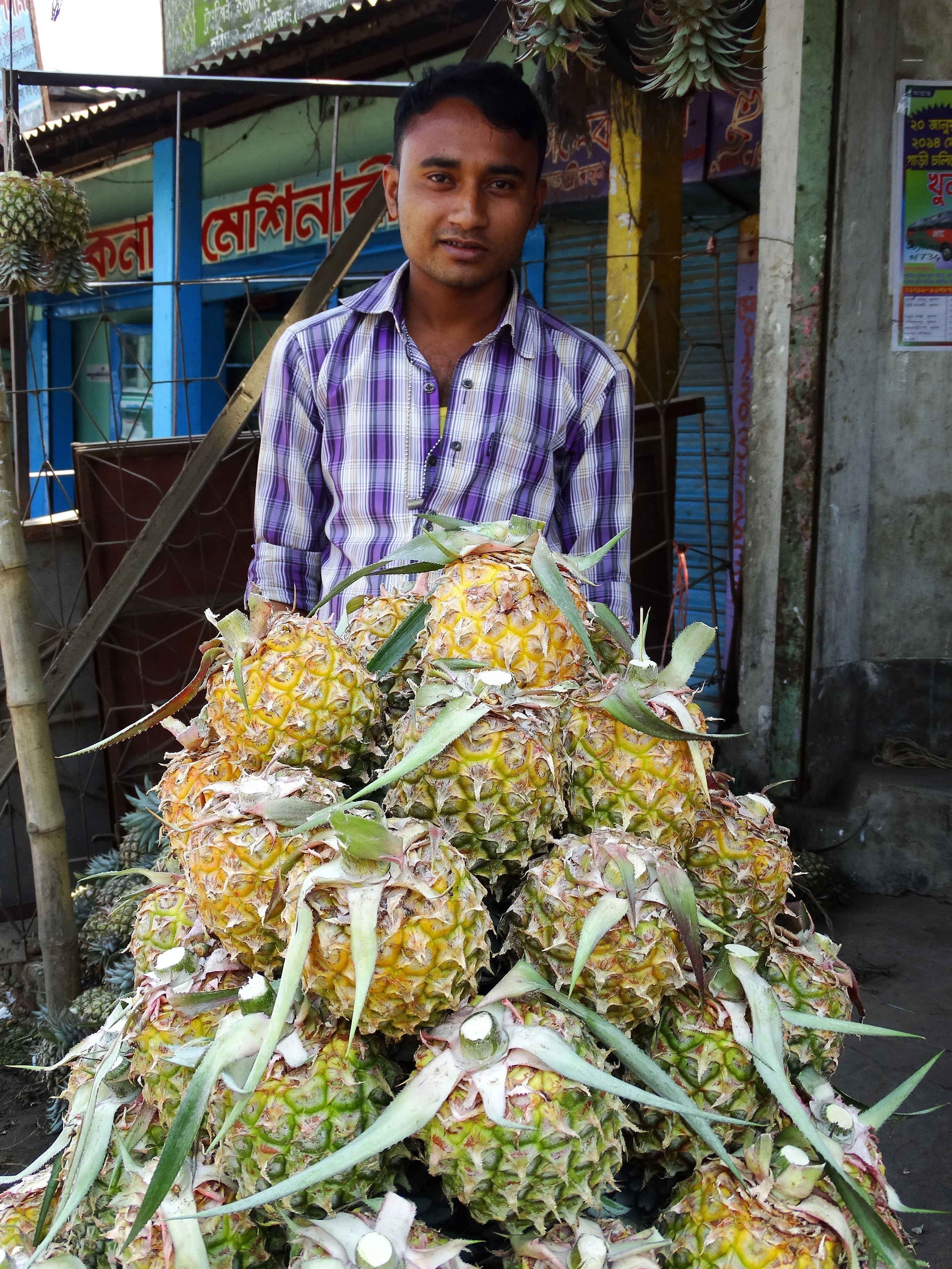 Vendor of Pineapples - Srimangal - Sylhet Division - Bangladesh